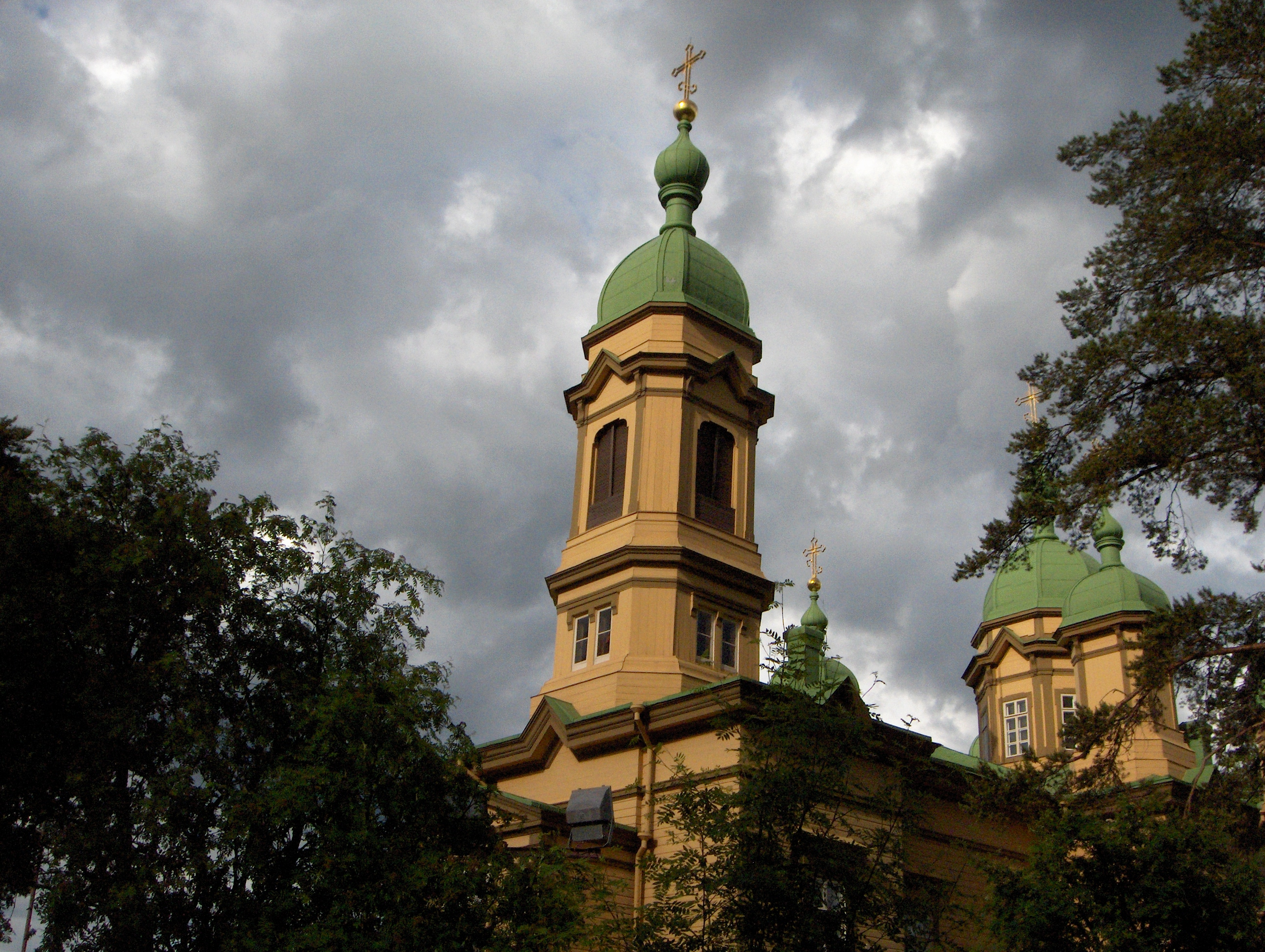 Church of the Holy Prophet Elias in Ilomantsi, Finland.